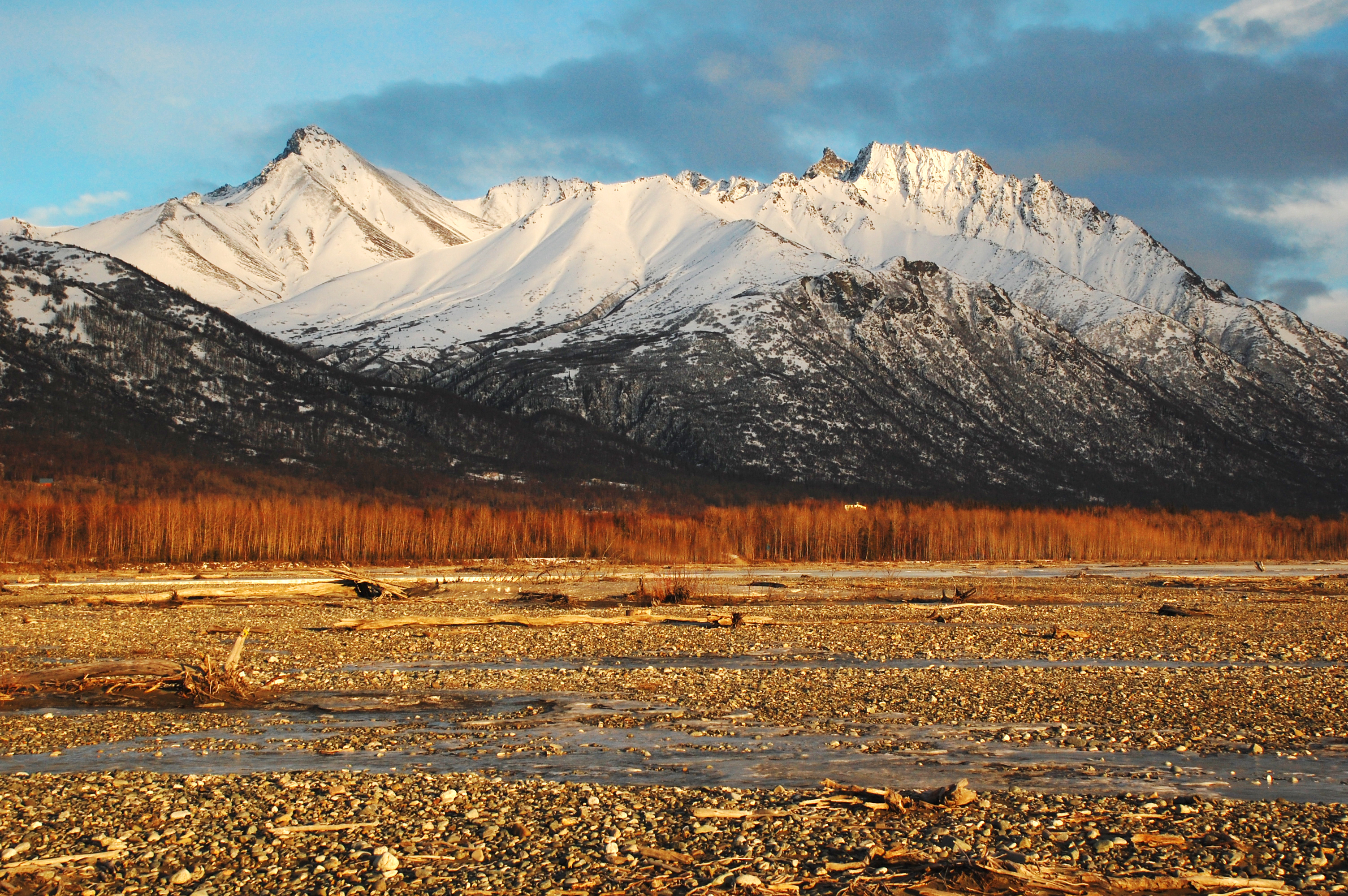 Matanuska Peak sunset